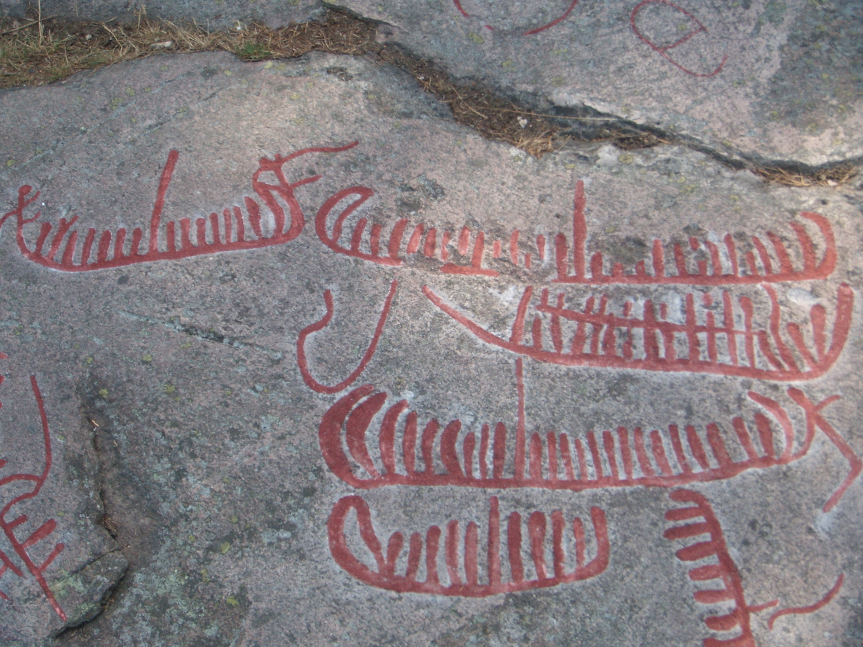 Rock carvings Torhamn, karlskrona- Blekinge